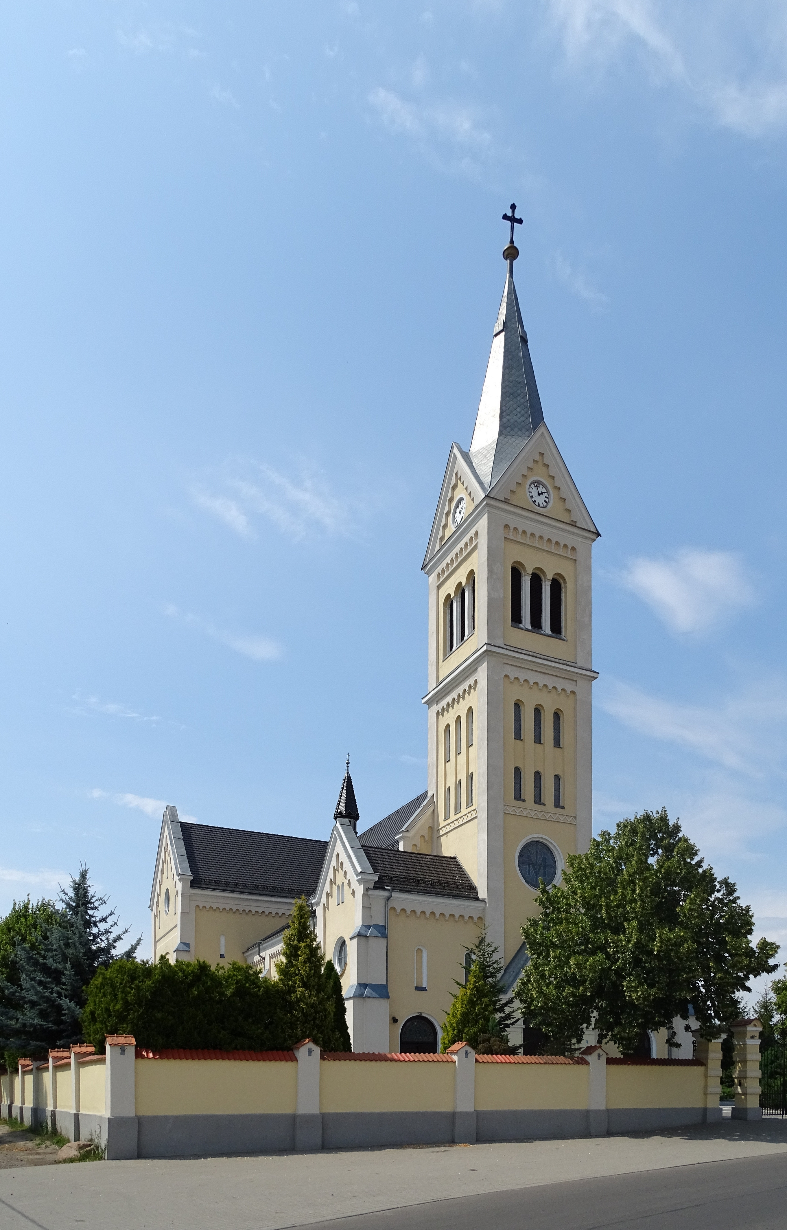 Janków. Zaleśny, Greater Poland. Church of Saint Adalbert completed in 1908.